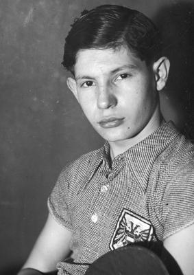 Richard Bergmann - table tennis player